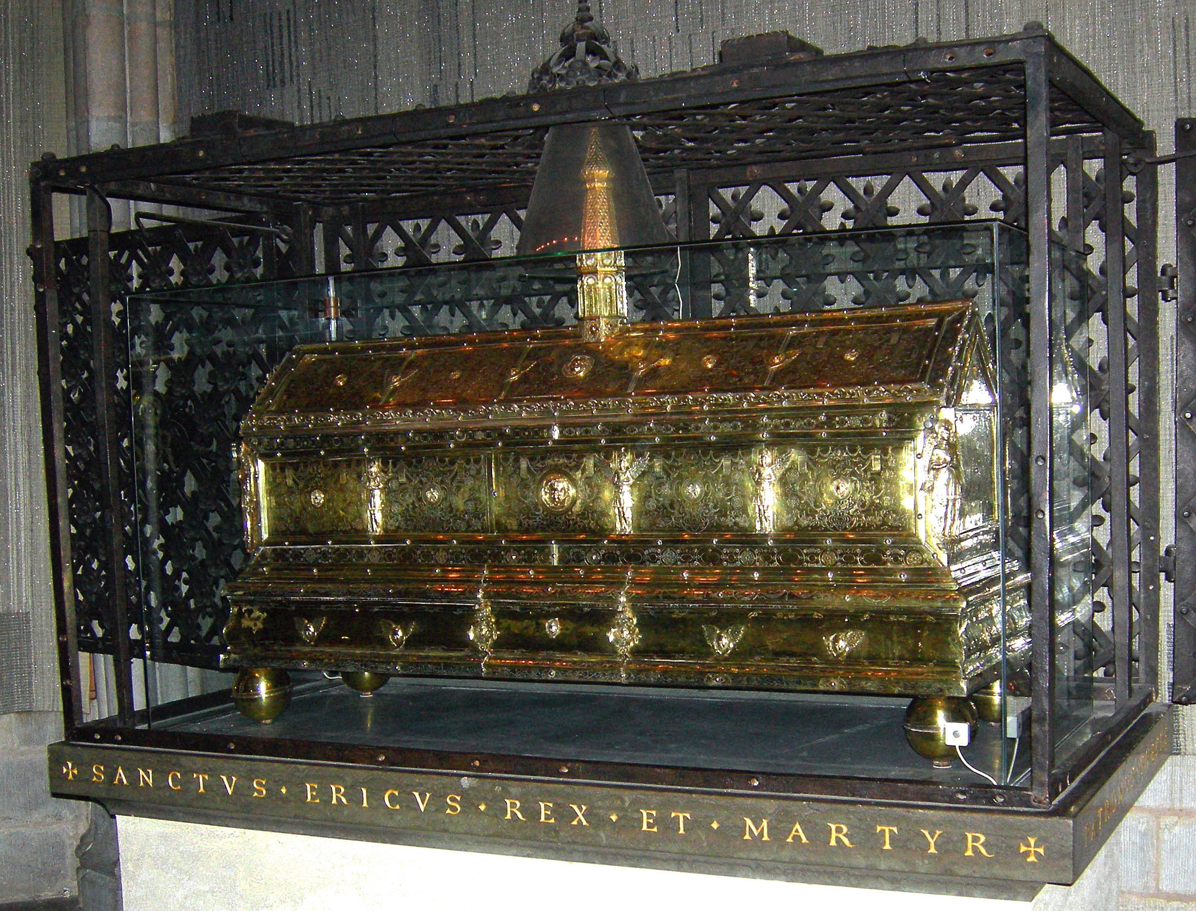 Casket of Eric the Saint in Uppsala Cathedral.